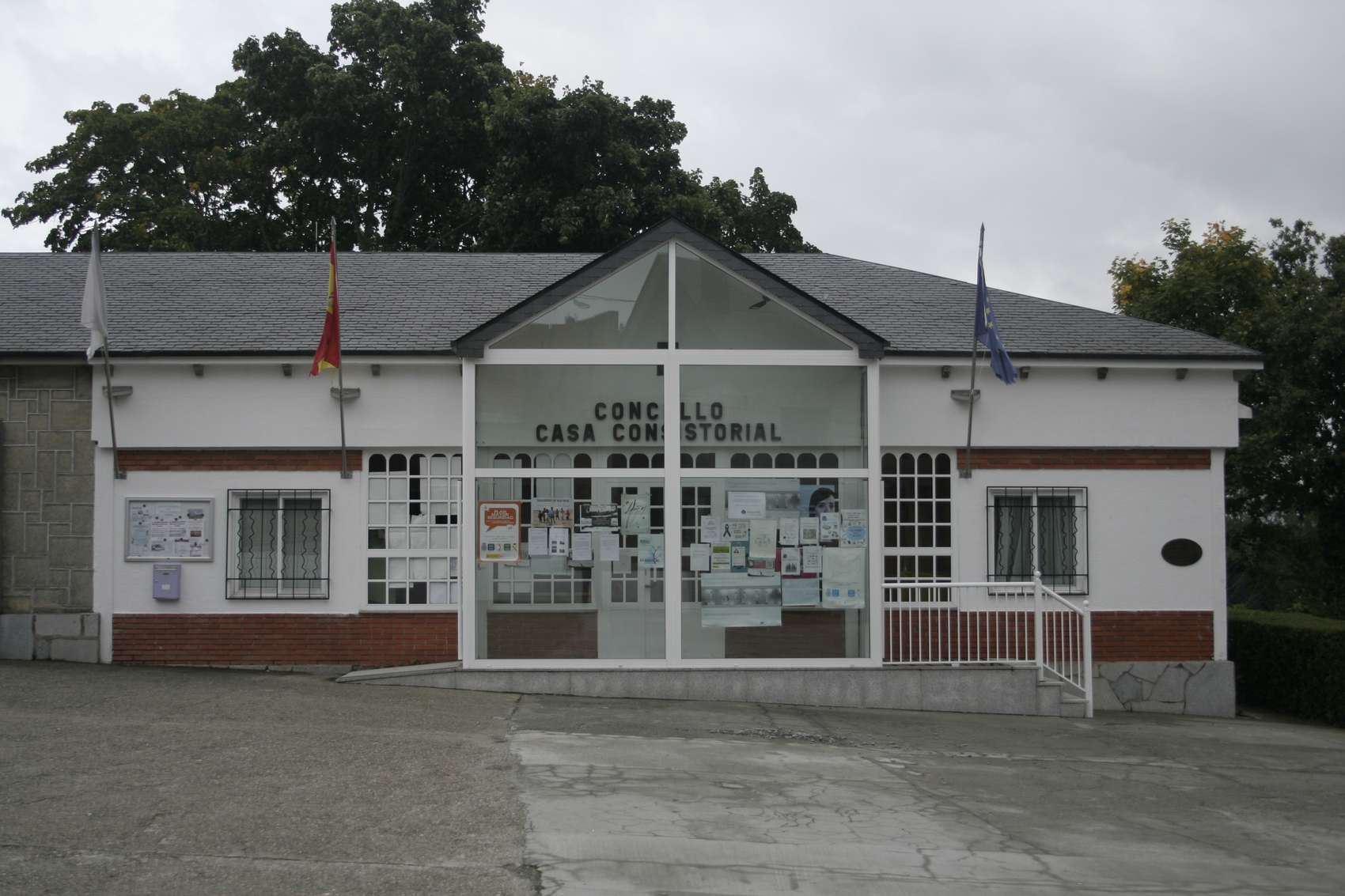 Town Hall in San Xoán de Río (Spain)